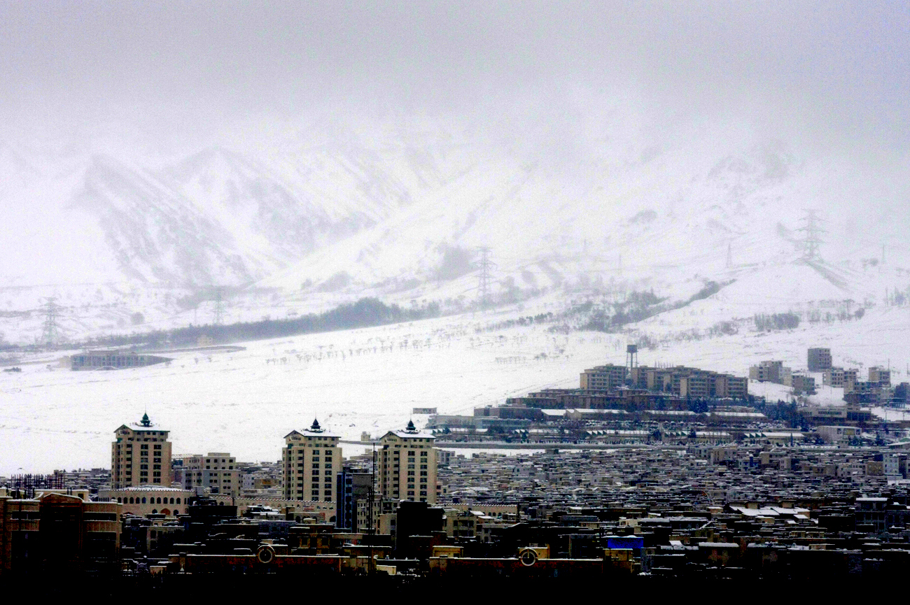 Karaj during the snow! Jan 6th 2008